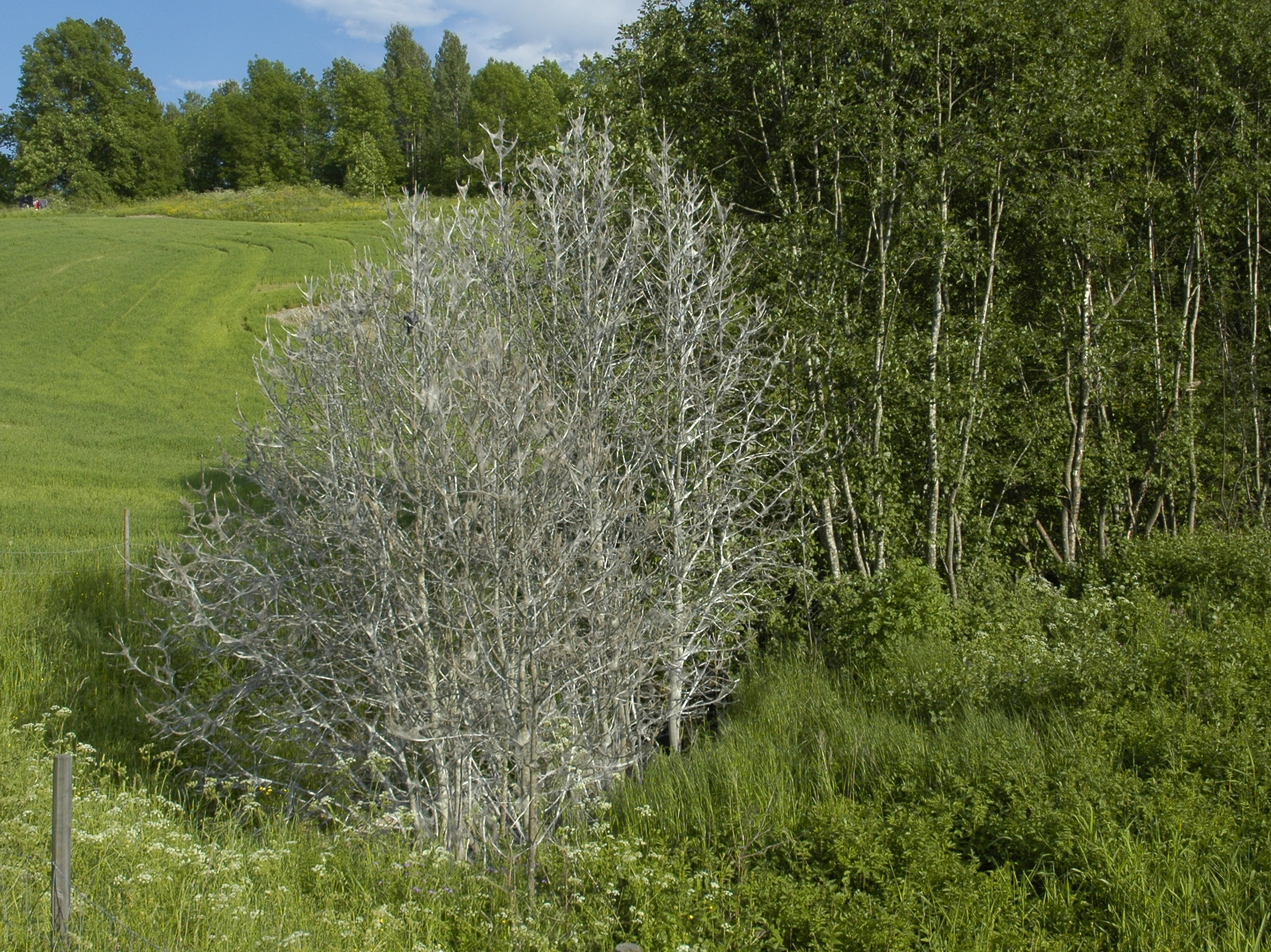 Whole trees covered with Yponomeuta evonymella. Photo taken in Røyken, Norway